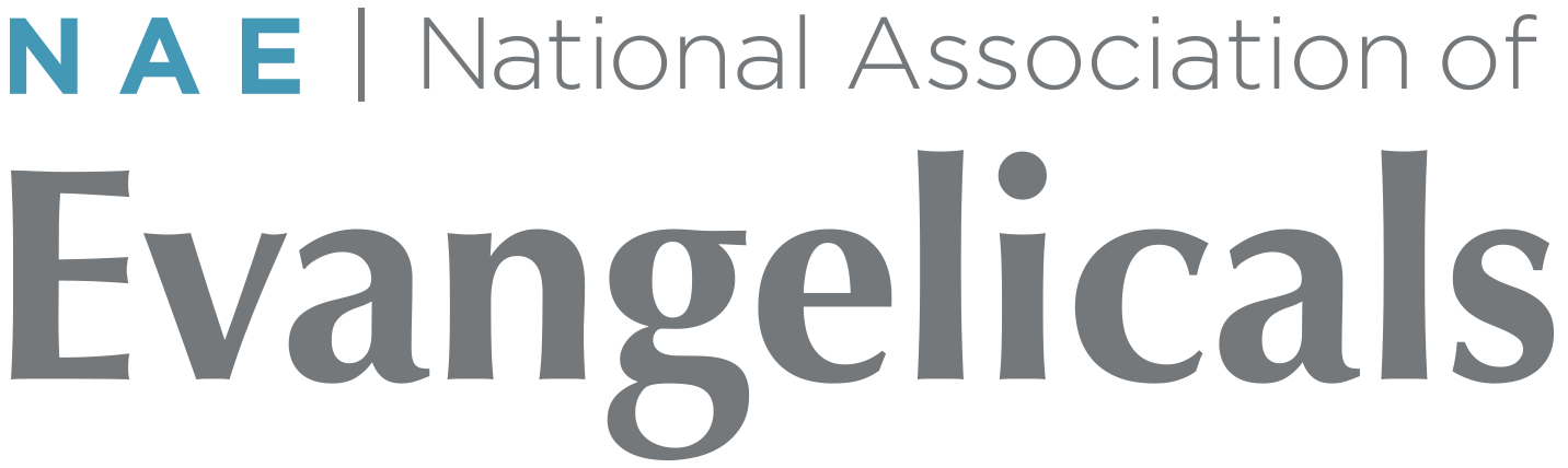 National Association of Evangelicals logo